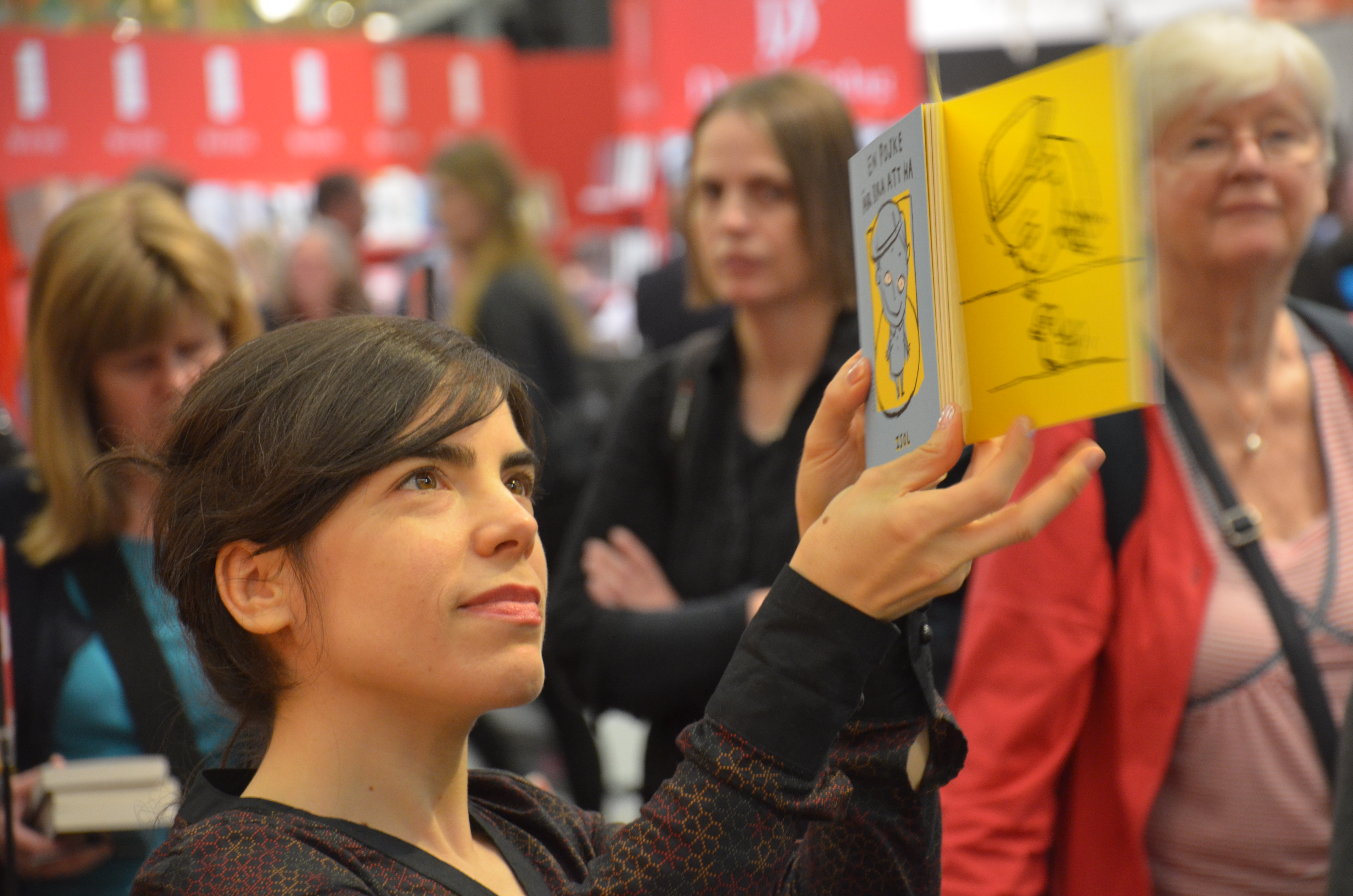 Isol showing her latest book at Göteborg Book Fair 2013